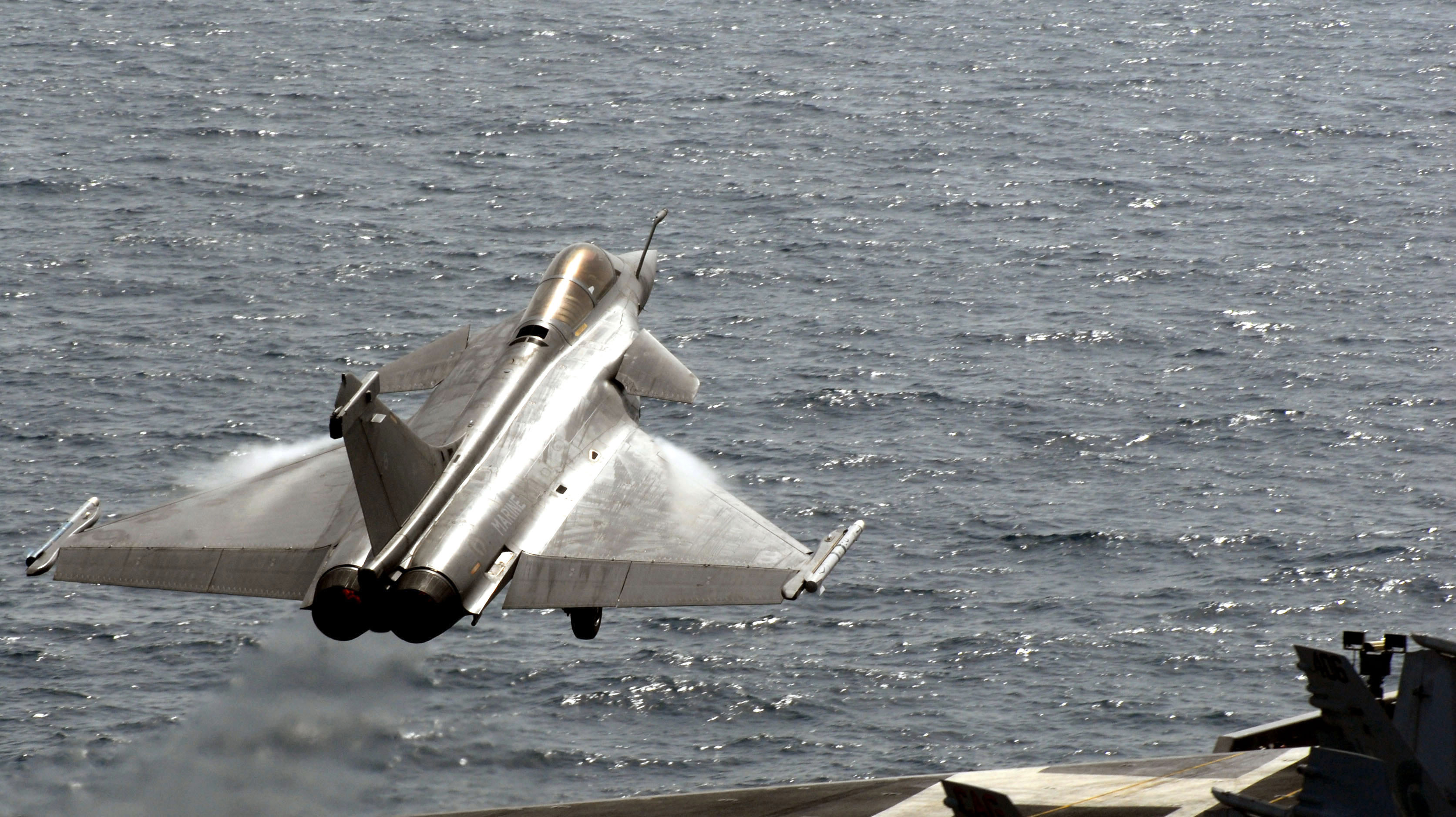 A French Rafale aircraft from the nuclear-powered aircraft carrier French navy ship Charles de Gaulle (R 91) performs a touch-and-go landing on the flight deck of USS John C. Stennis (CVN 74) April 12, 2007. Stennis, as part of the John C. Stennis Carrie r Strike Group, and Charles de Gaulle, the Flagship of Commander, Task Force 473, are operating in the Arabian Sea. Stennis and Charles de Gaulle are conducting bilateral exercises and supporting multi-national ground forces in Afghanistan. (U.S. Navy ph oto by Mass Communication Specialist Seaman John Wagner) (Released) (Released to Public)